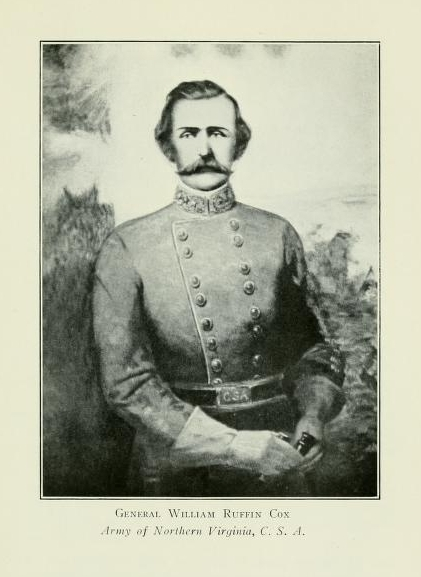 Gen. William R. Cox, C.S.A., from A sketch of the life and service of General William Ruffin Cox ; including the address of Hon. Frank S. Spruill at the Presentation of Portrait of General William Ruffin Cox to the State of North Carolina. Richmond, Va. : Whittet & Shepperson, 1921.